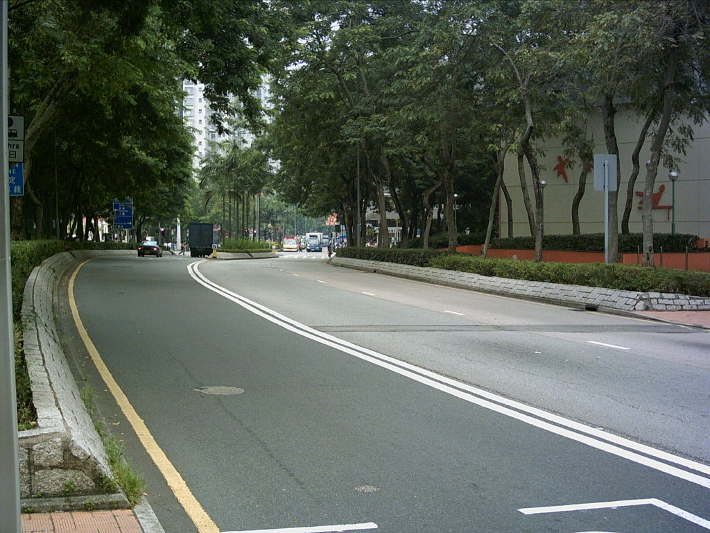 Lung Sum Avenue, Sheung Shui. Taken by myself in August, 2006.